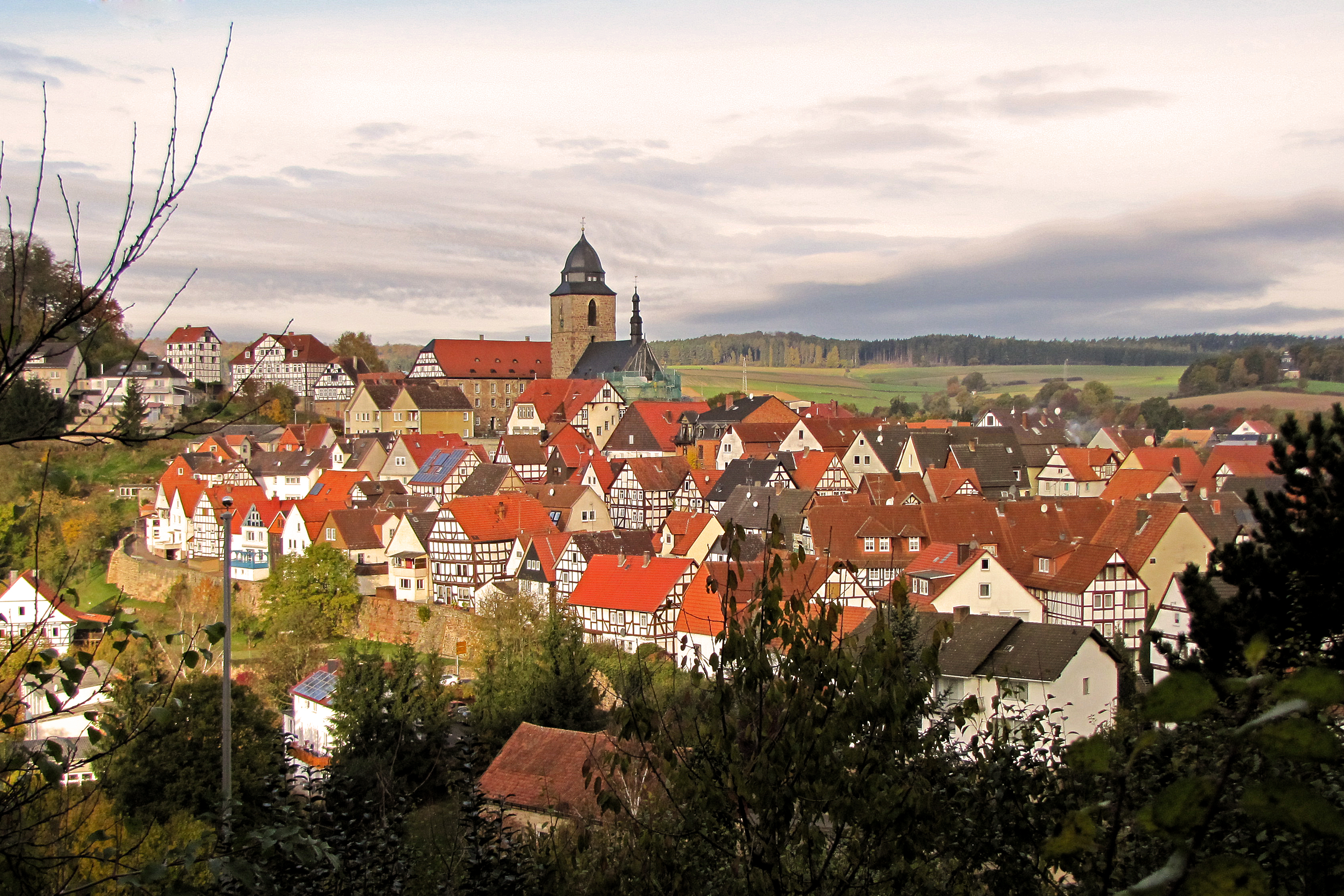 Westward view of the historic inner city of Naumburg (Hesse). In the centre of the picture is the Catholic city parish church St. Crescentius.